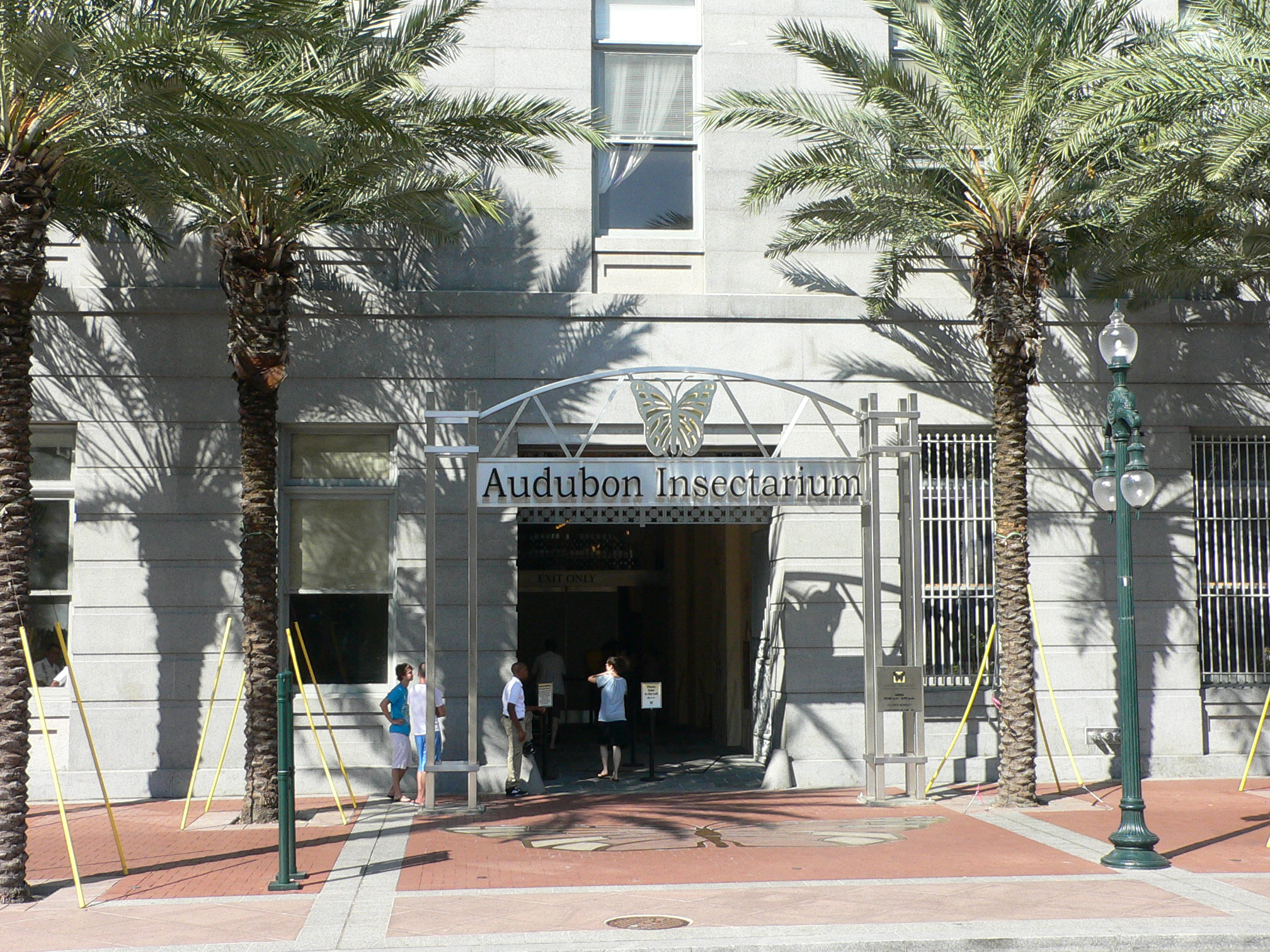 Pictures taken by myself at the Audubon Insectarium